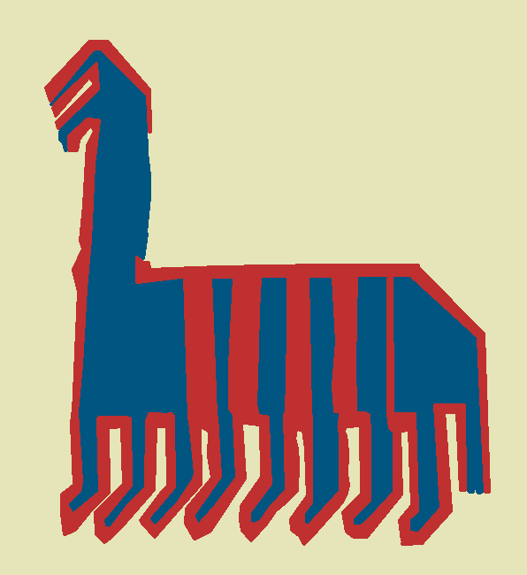 Odin's eight-feeted horse Sleipnir, as he is depicted on one of the Överhogdal tapestries, found 1909-1911 in Överhogdal in Härjedalen i Sweden. Drawn from photo.